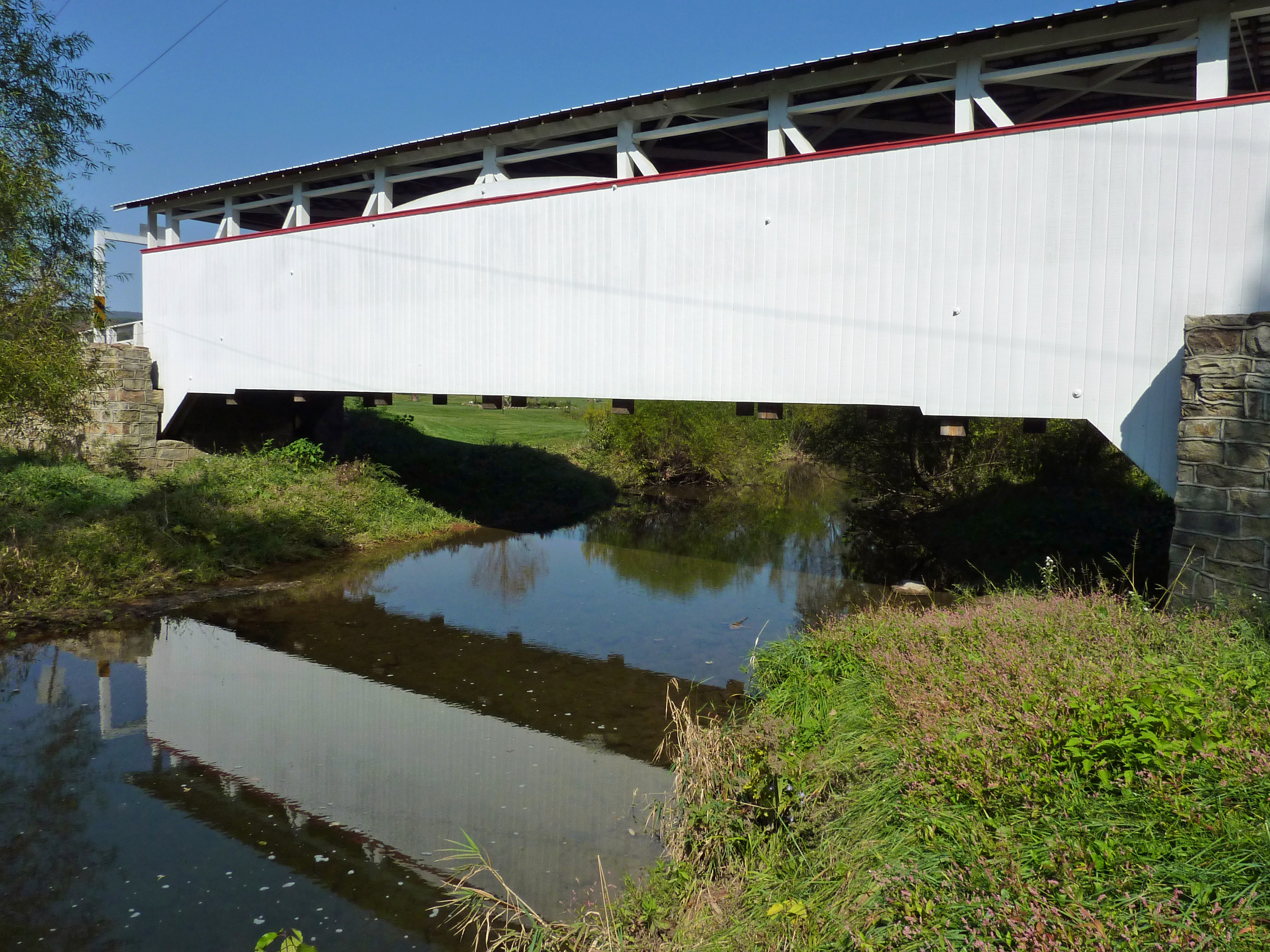 Ryot Covered Bridge built in 1868 over Dunning Creek in at West St. Clair Township, Bedford County, Pennsylvania, USA. Original text from Flickr: During a family visit back to western PA in October 2010 we hopped in my sister's car and checked out some quaint covered bridges - I think all of them are in Bedford County (but let me know if I'm wrong). The bridges are still in good shape but several are no longer in use. It was a fun day checking these out since I had never seen any of them before. Identification confirmed on p. 38 of "Pennsylvania's Covered Bridges" 2nd ed. by Benjamin D. Evans and June R. Evans.